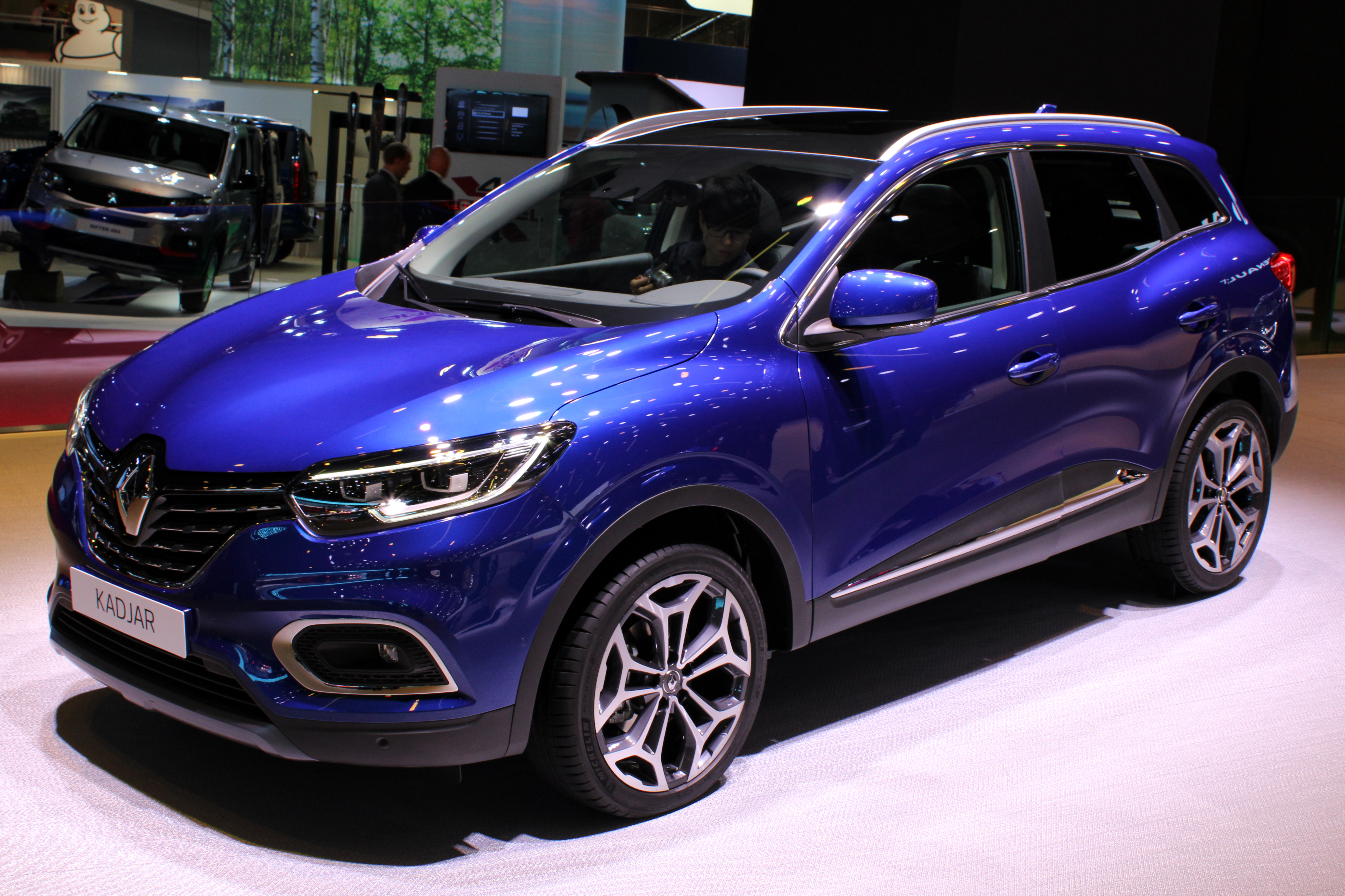 Renault Koleos Facelift at Paris Motor Show 2018